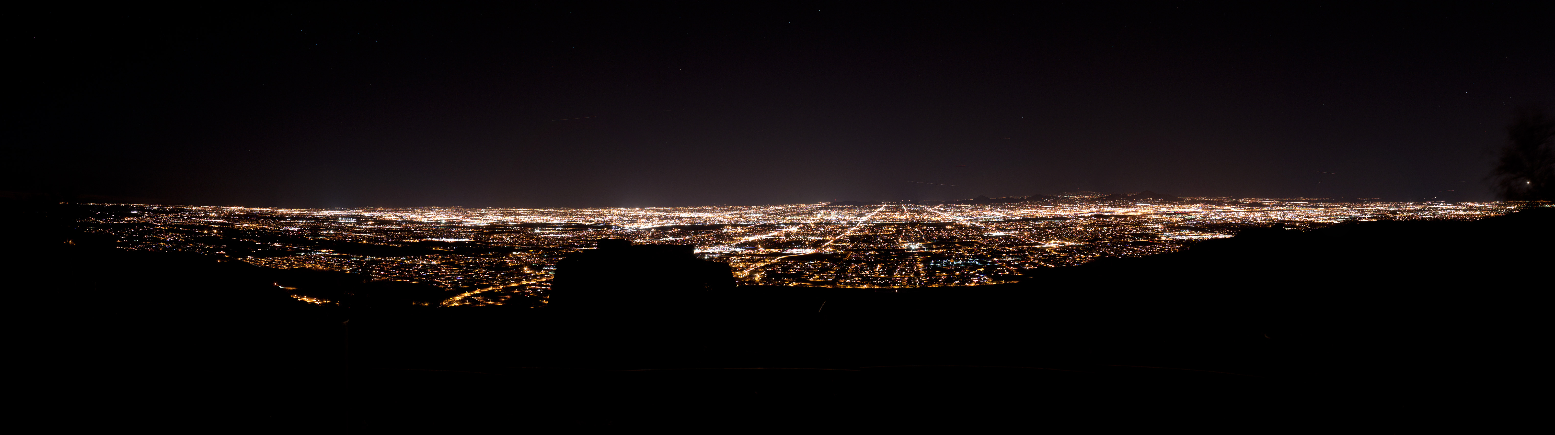 Phoenix Skyline from South Mountain at Night